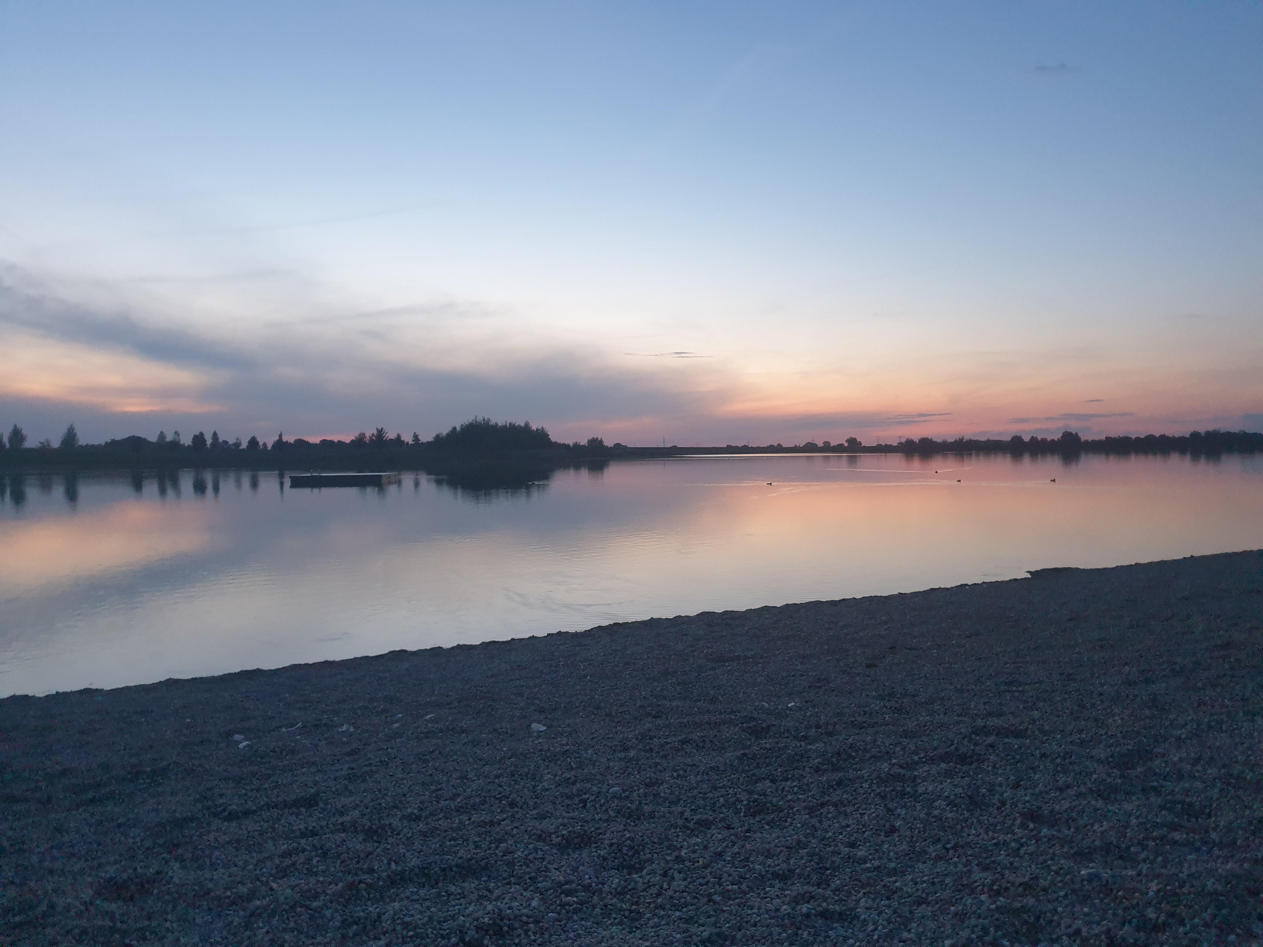 KRonthaler Weiher 2